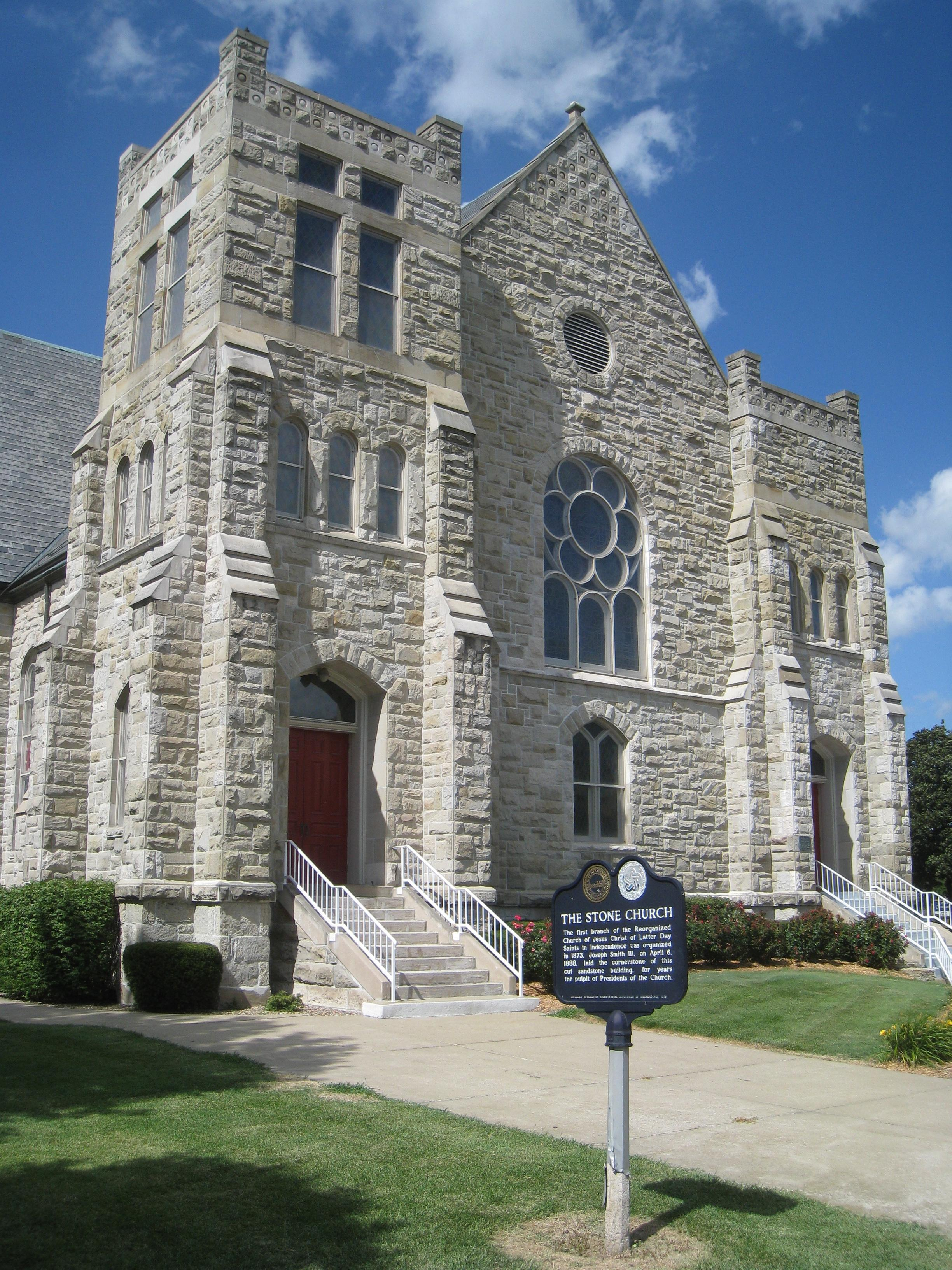 July, 2010 photograph of the historic "Stone Church" built in 1888 in Independence, Missouri by the Reorganized Church of Jesus Christ of Latter-day Saints, ("RLDS" Church renamed "Community of Christ" Church in 2000). see